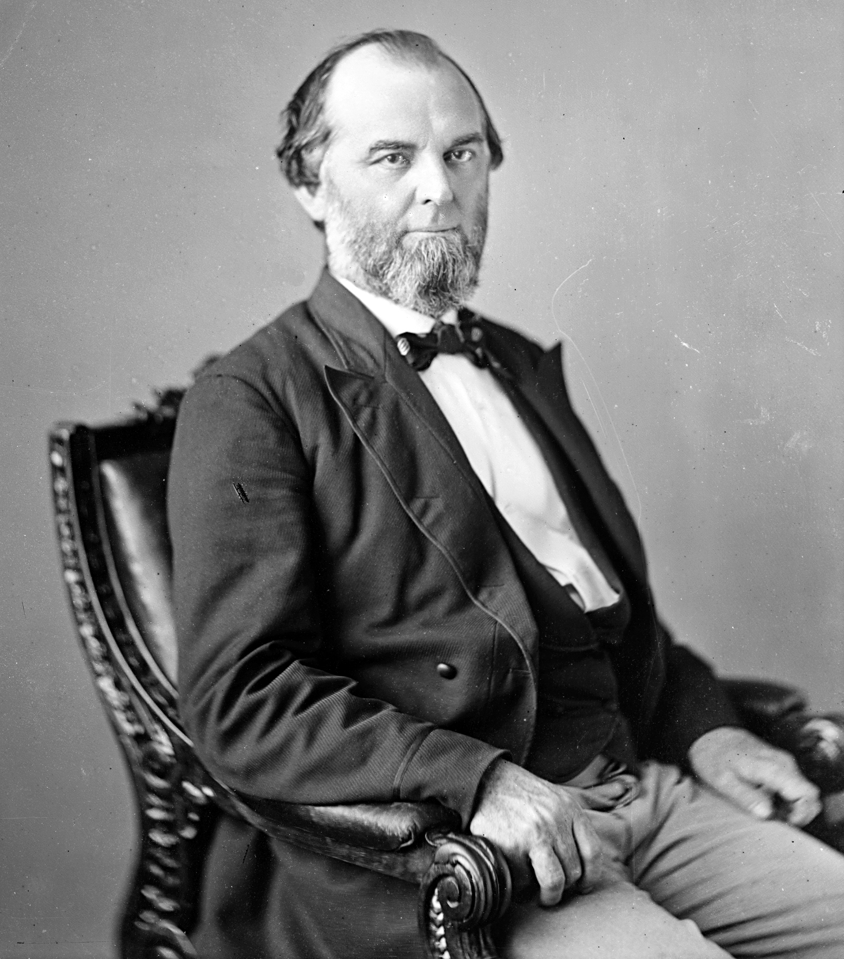 Asa H. Willie, US Representative from Texas